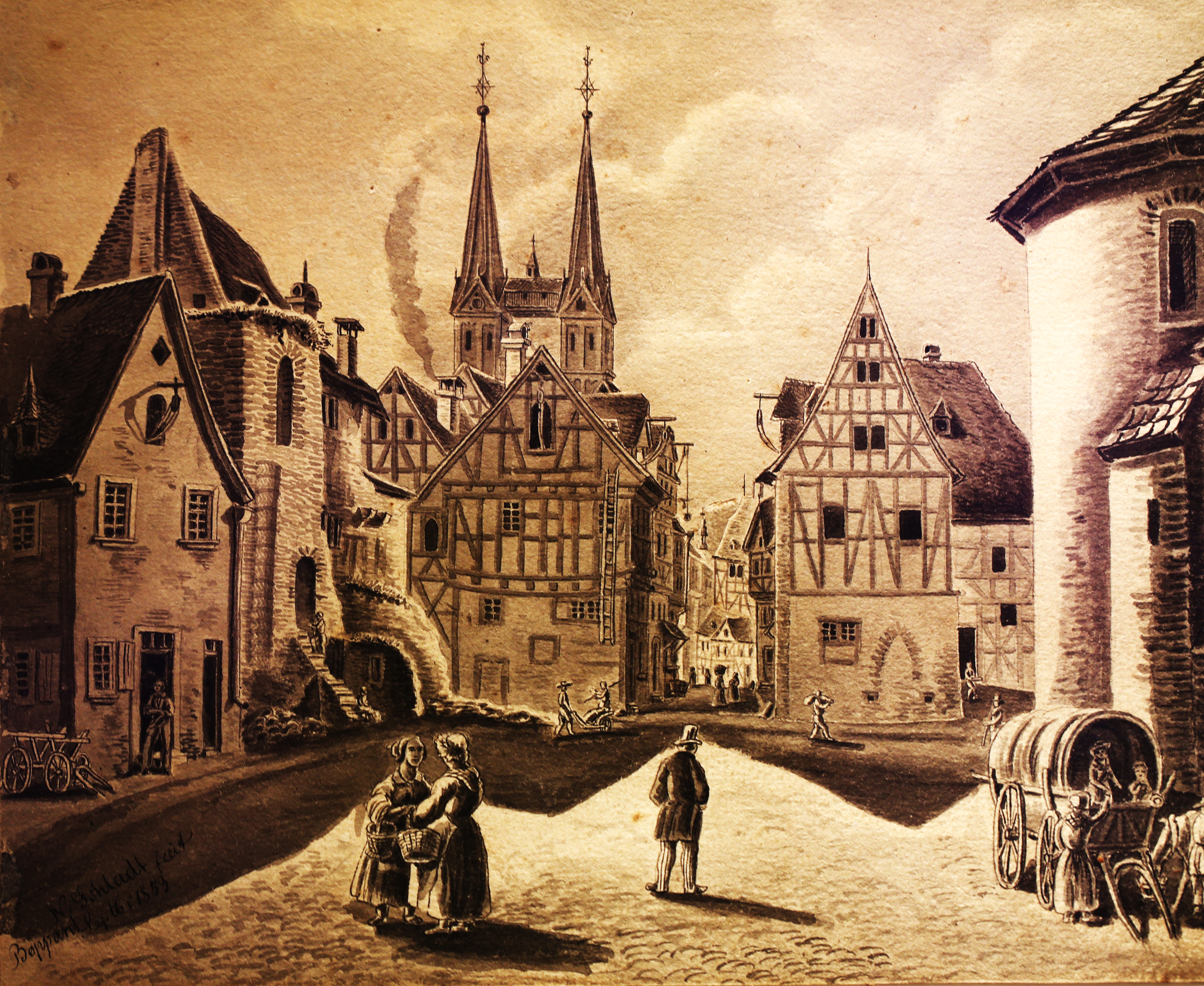 Museum Bopppard in the old electoral castle of Boppard